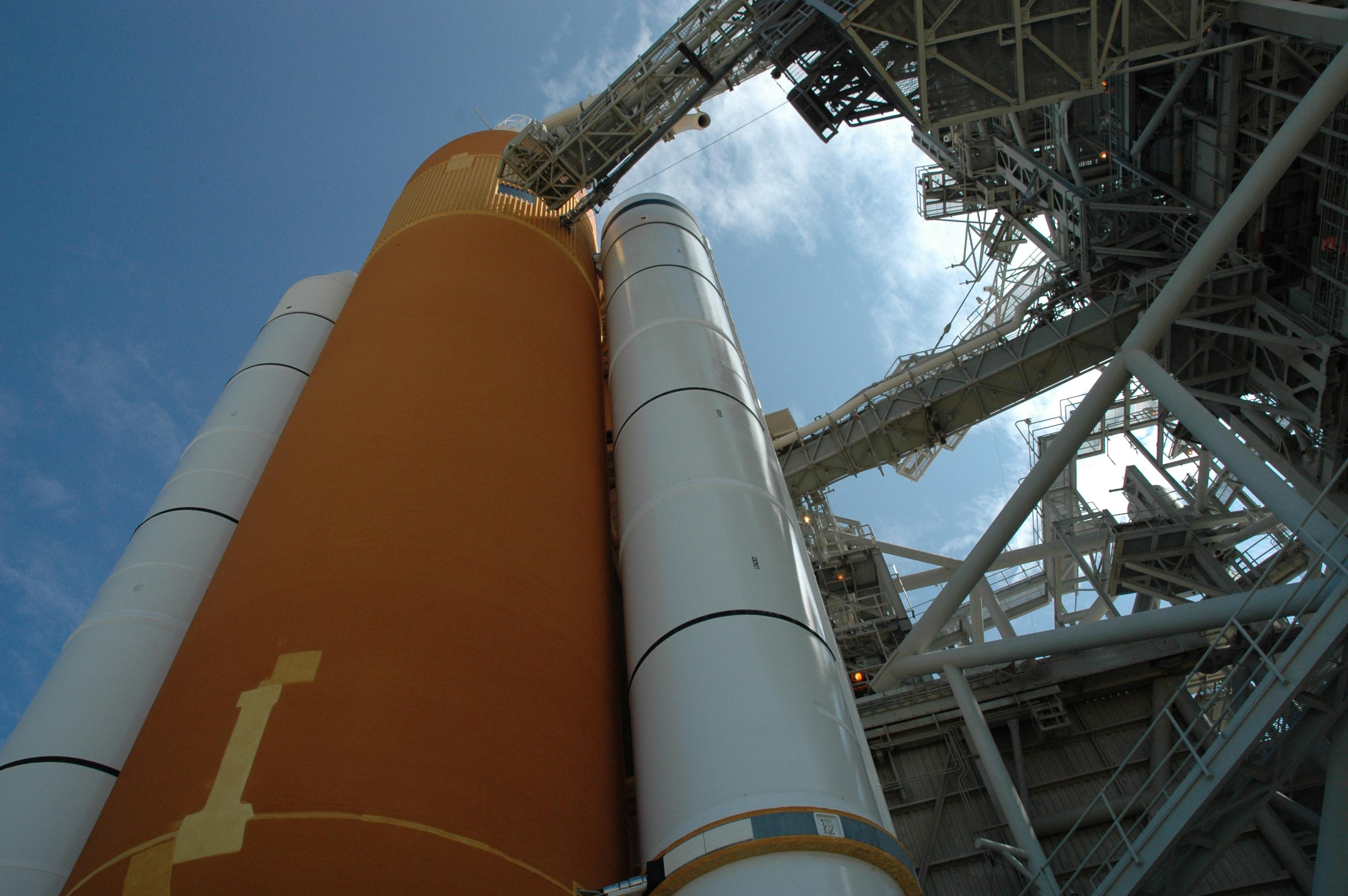 KENNEDY SPACE CENTER, FLA. – Seen on Launch Pad 39B, the looming external tank (center) flanked by the solid rocket boosters hide Space Shuttle Atlantis, behind them. Near the top of the external tank is the liquid hydrogen vent arm. Preparations continue on the pad for launch of Atlantis on mission STS-115 as early as Aug. 29. However, preparations are also underway for a rollback of Atlantis to the Vehicle Assembly Building due to Hurricane Ernesto. The rollback will be determined by the mission management team based on information about Hurricane Ernesto and its path through Florida. Atlantis has been poised on Launch Pad 39B for liftoff on mission STS-115 to the International Space Station to deliver the P3/P4 truss segment.